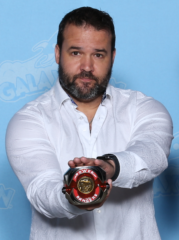 Austin St. John at GalaxyCon Richmond in 2019